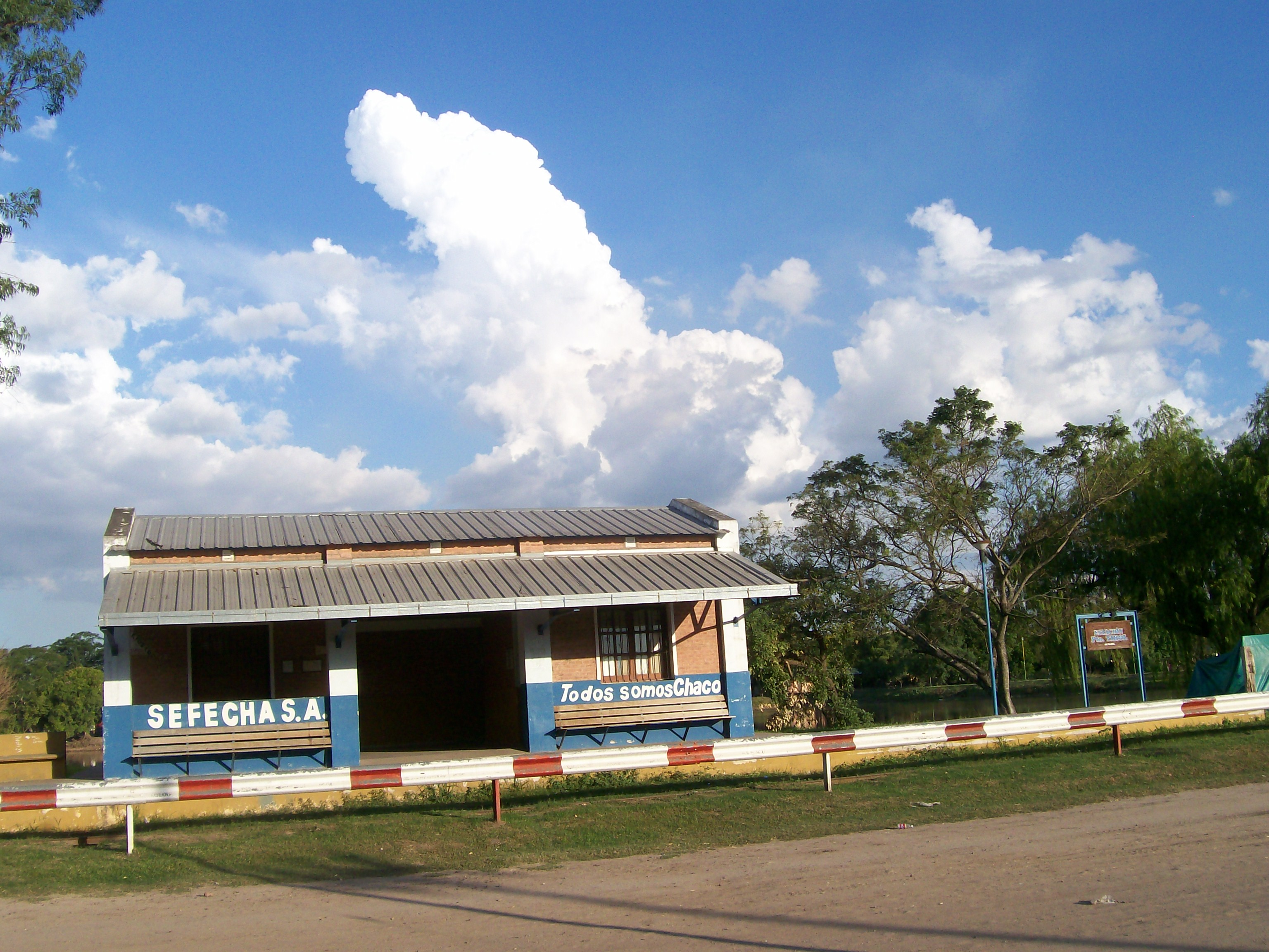 SEFECHA railway ending train station in Puerto Tirol (Chaco Province, Argentina), two blocks away town main square. You can see Beligoy lake in the back.